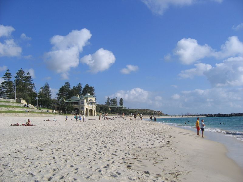 TThe sandy beach of Cottesloe.